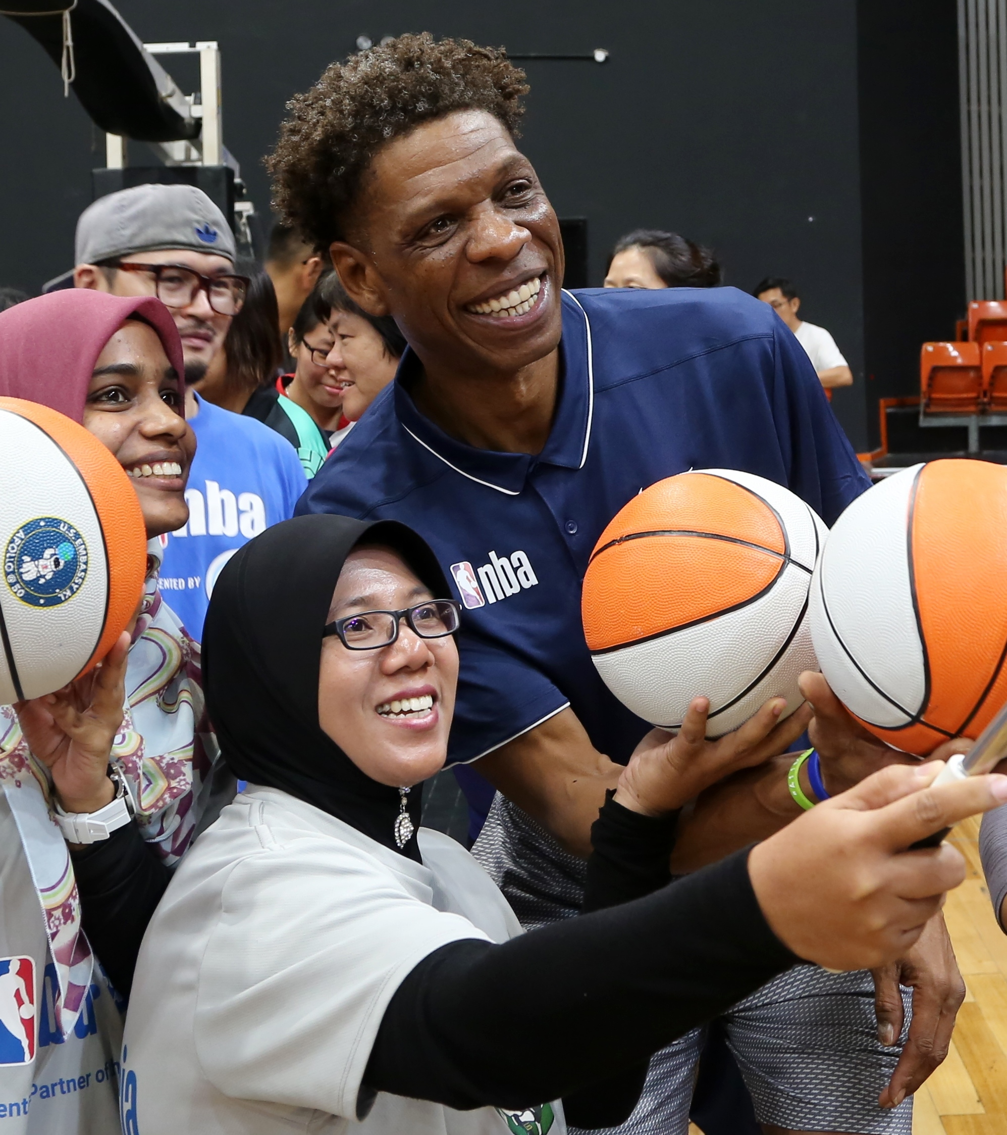 J. R. Reid poses for photos in Kuala Lumpur